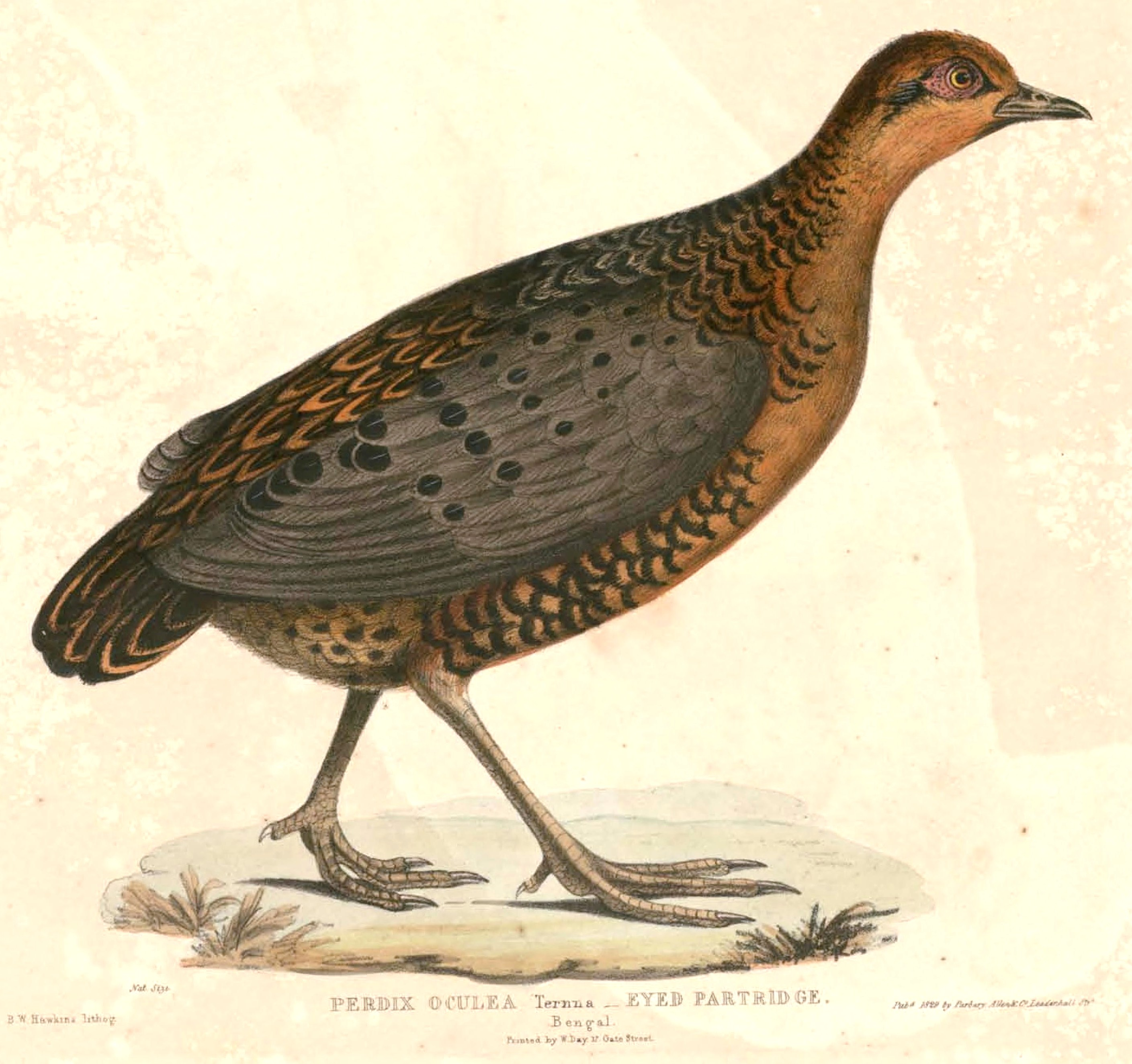 « Perdix oculea » = Caloperdix oculeus (Ferruginous Partridge)